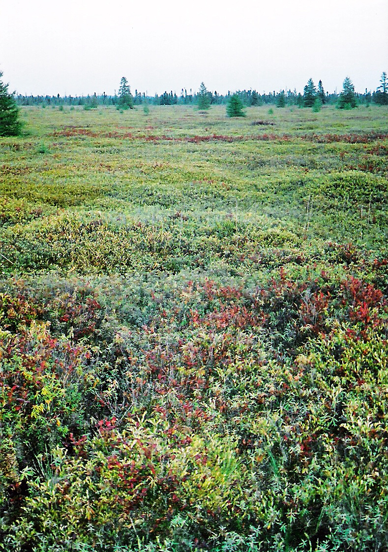 Mer Bleue Bog conservation area, Ottawa, Canada.